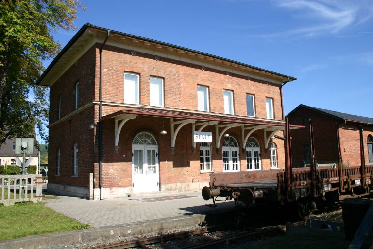 Bahnhof Spalt